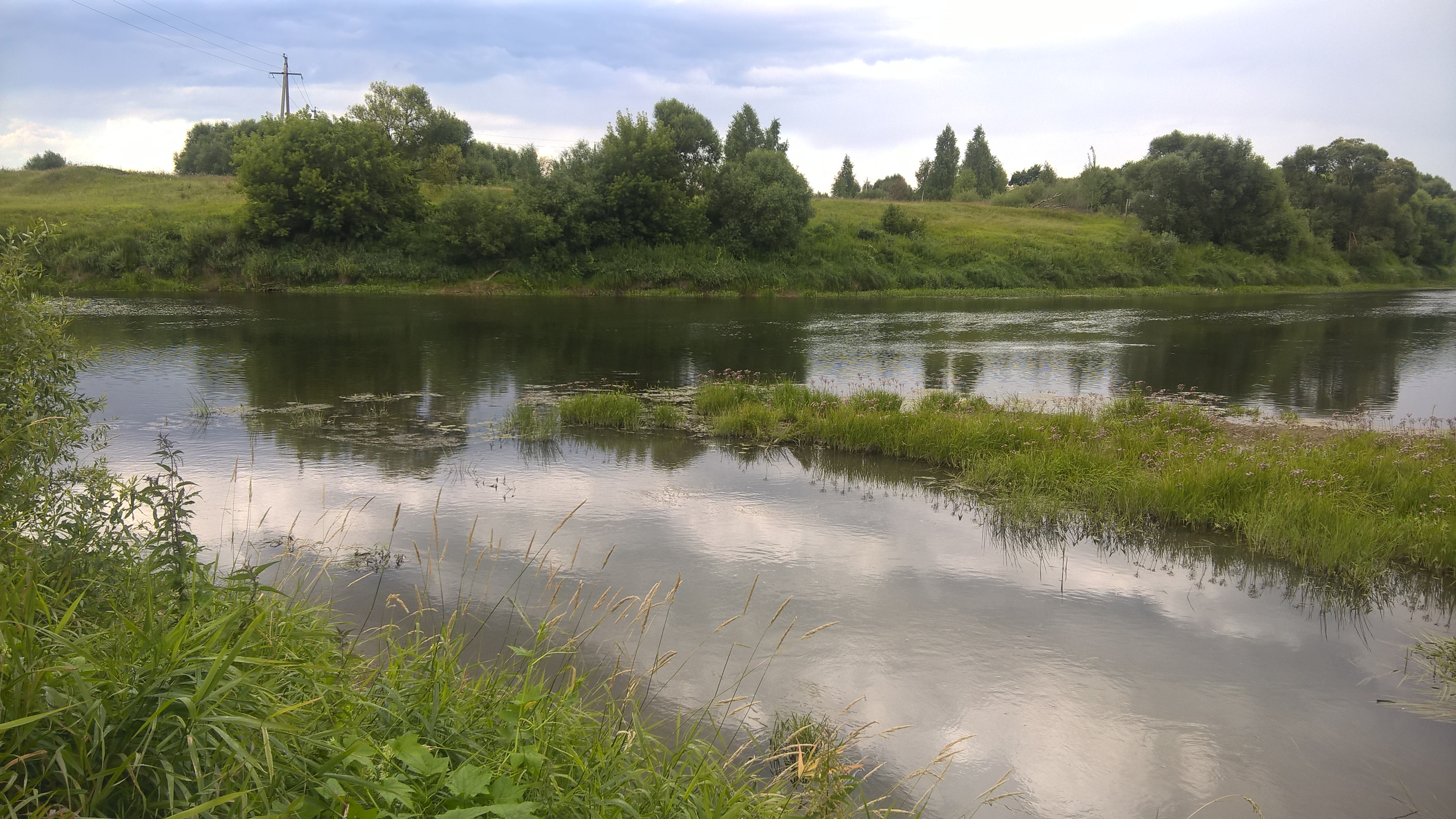 Tributary of the river Dnieper — Rasasenka. River mouth. Dubroŭna region. Belarus. Беларуская (тарашкевіца): Левы прыток Дняпра — Расасенка. Вусьце.